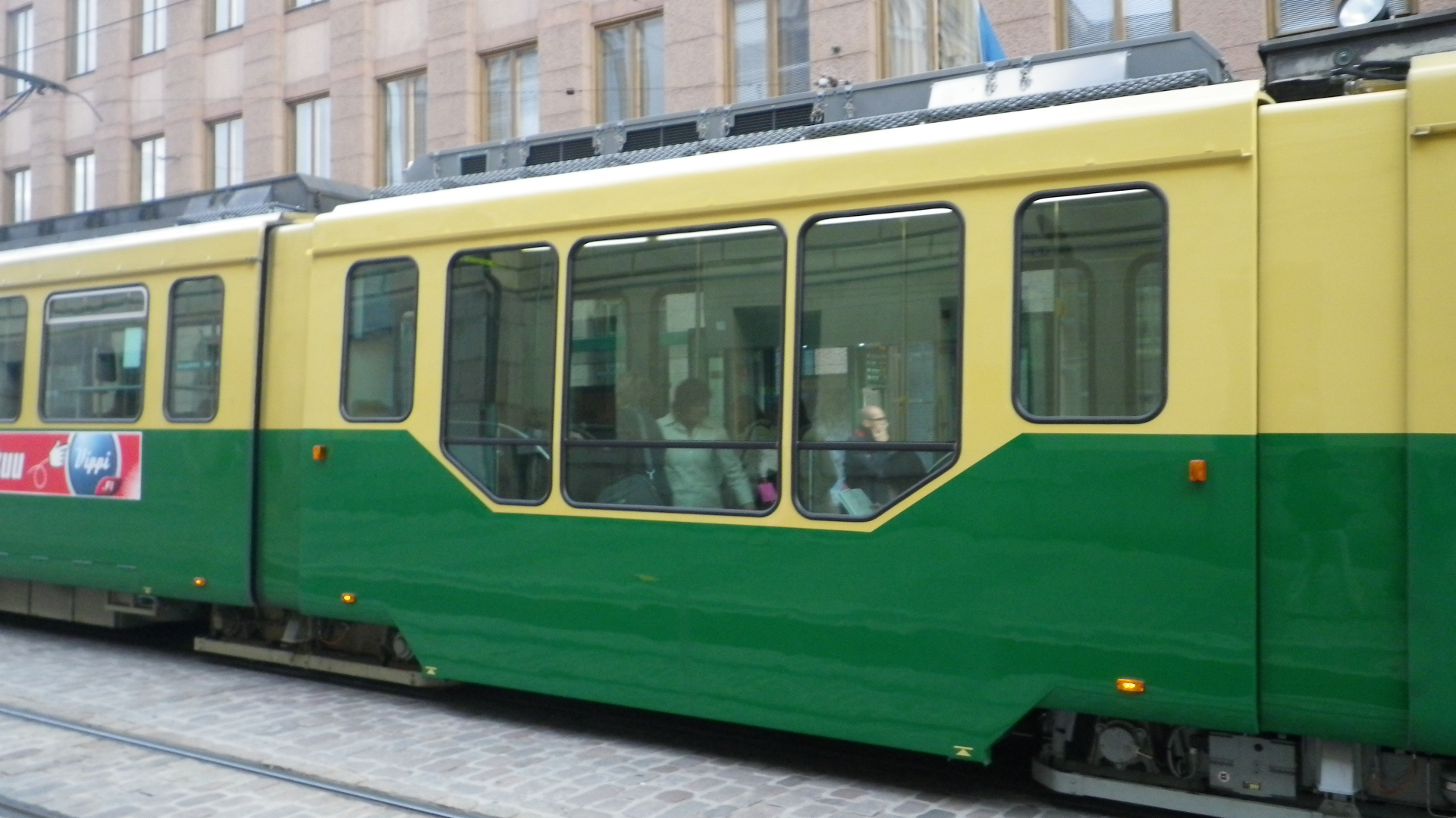 It is a Helsinki tram middle low floor vehicle.